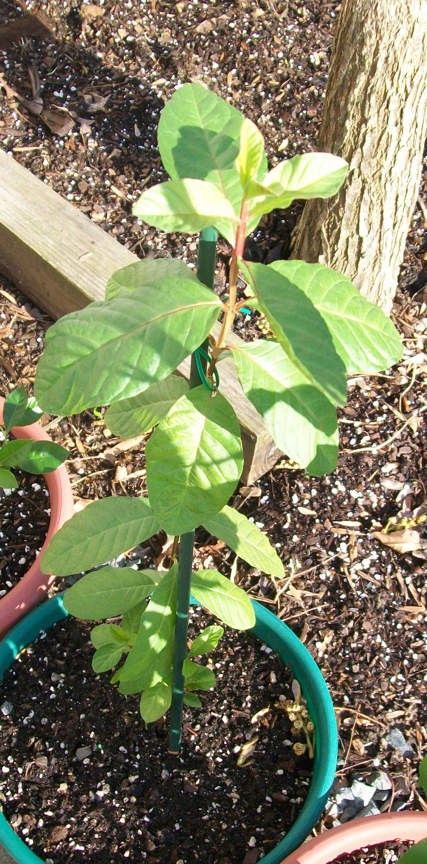 14-month-old common guava seedling, Chapel Hill, North Carolina